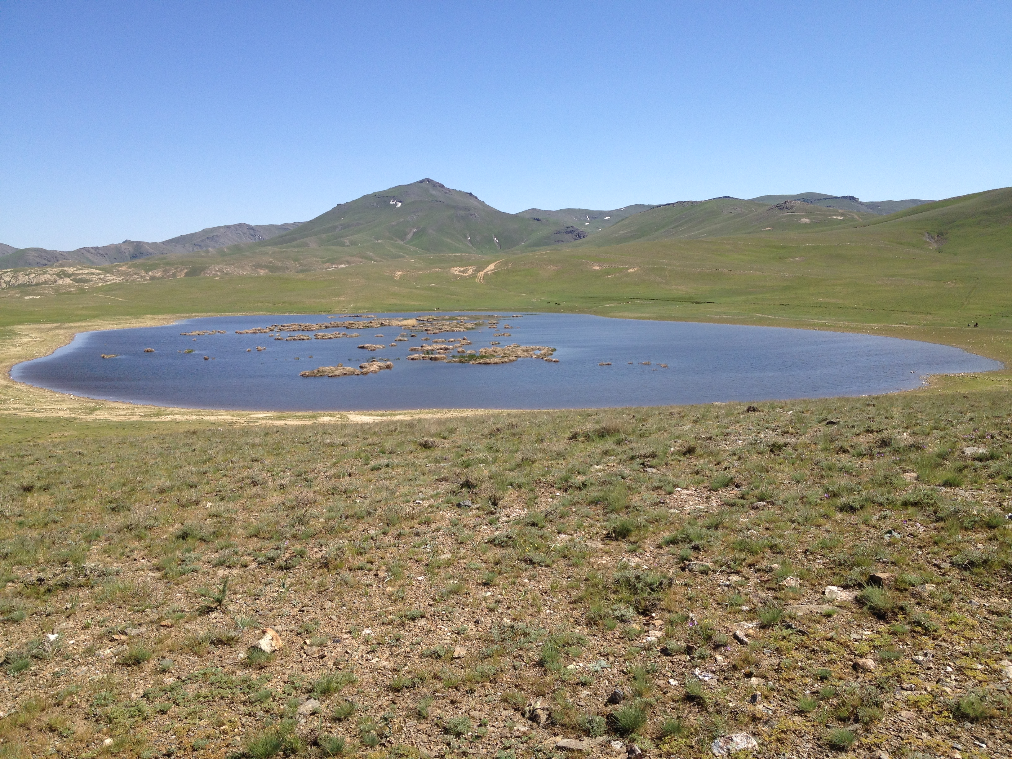 Fazilman lake and Kichik Fazilman mountain Oʻzbekcha/ўзбекча: Fazilman ko'li va Kichik-Fazilman cho'qqi (ufqida) / Фазилман кўли ва Кичик-Фазилман чўққи (увқида)